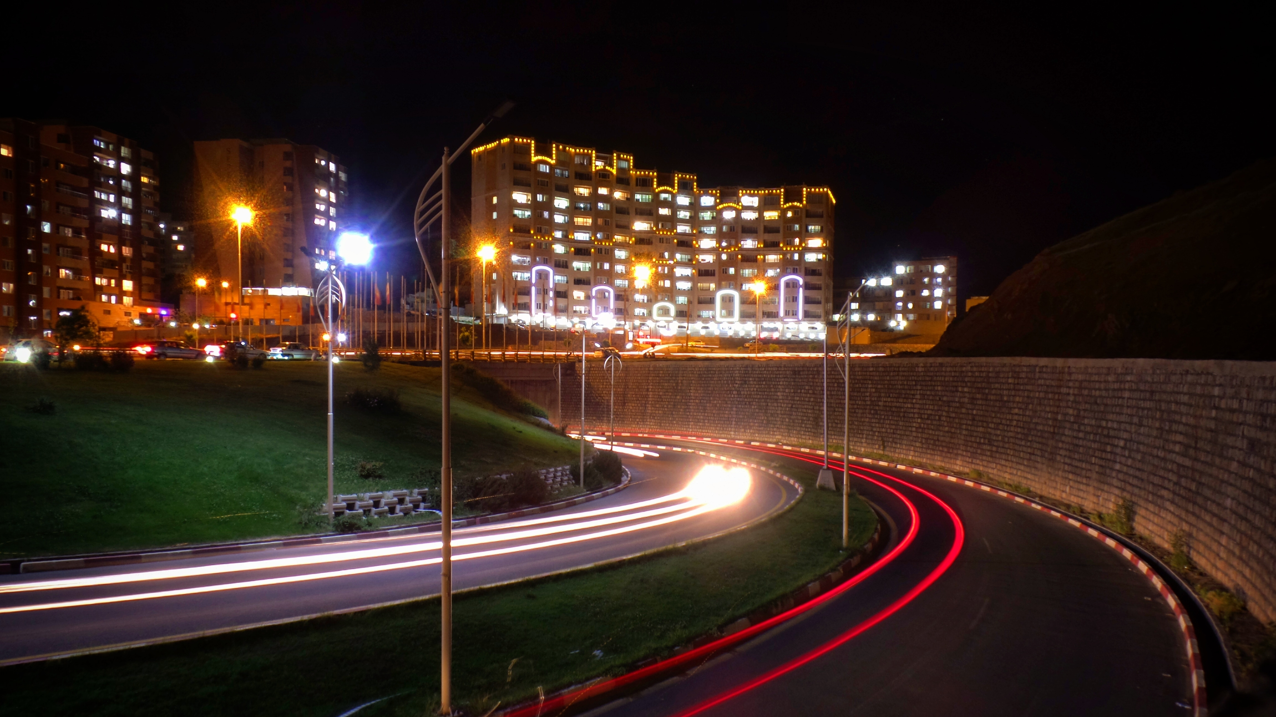 Keshavarz town, Sanandaj, Iran